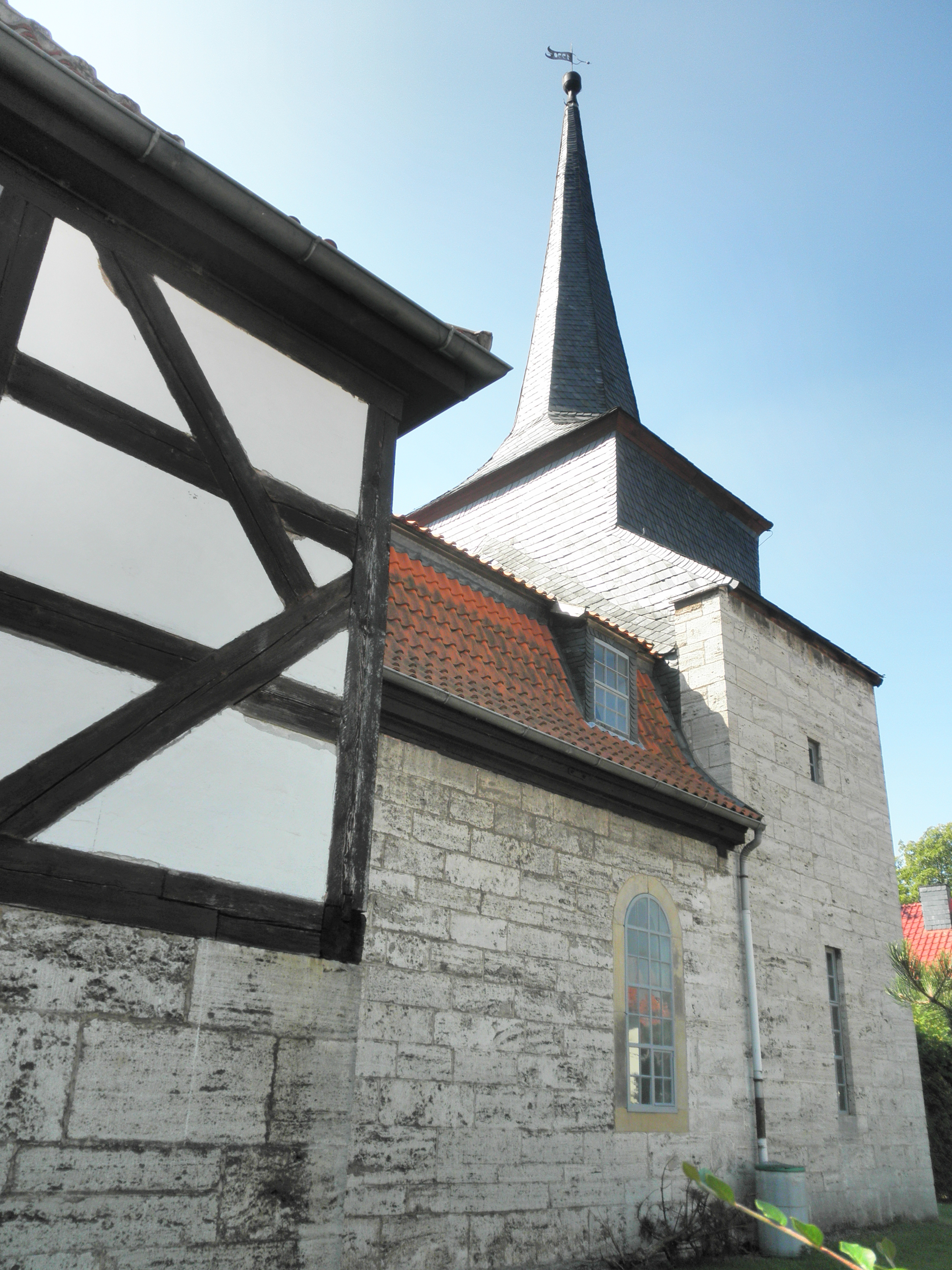 Church in Sundhausen in Thuringia